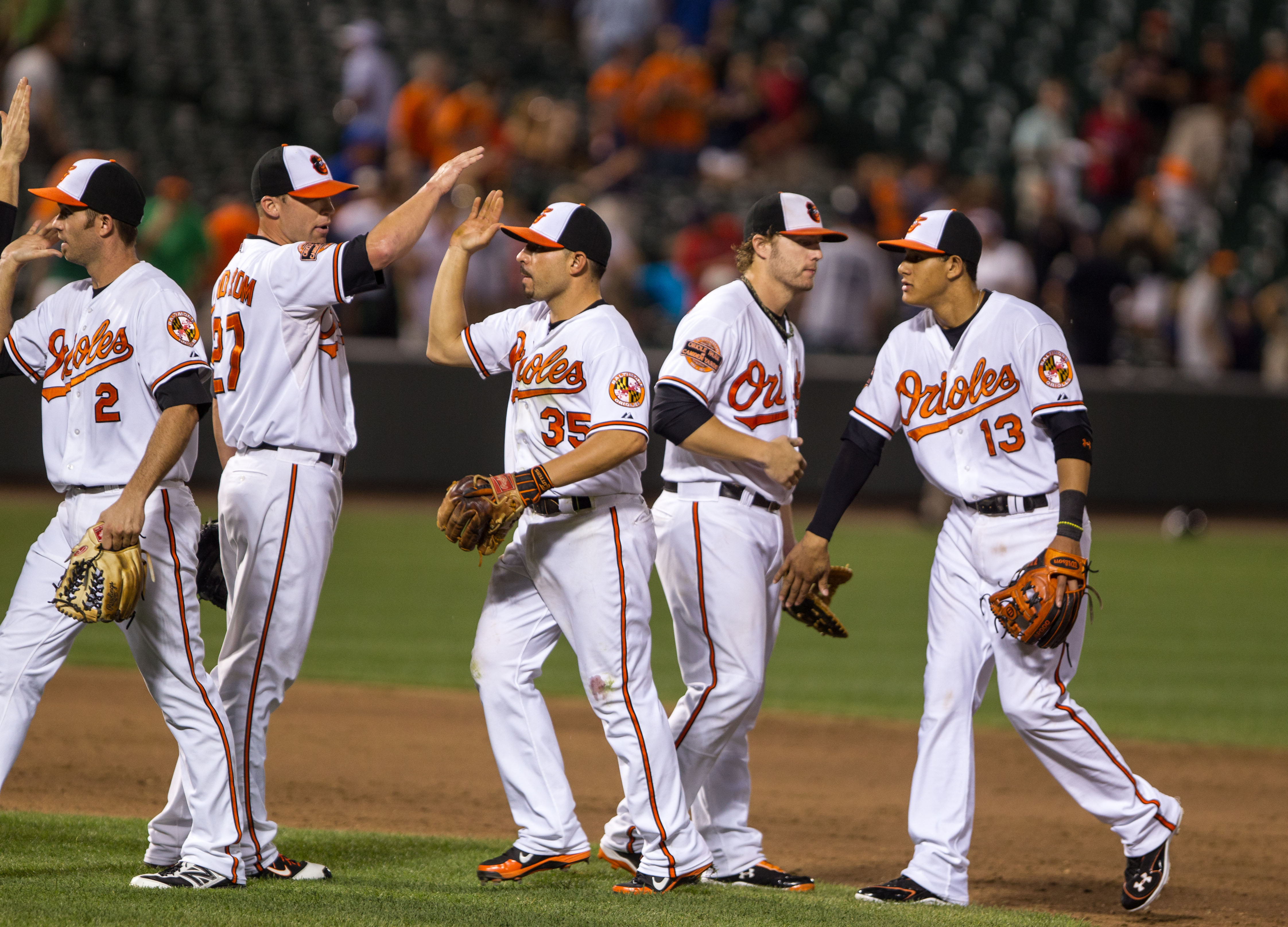 Boston Red Sox at Baltimore Orioles August 14, 2012